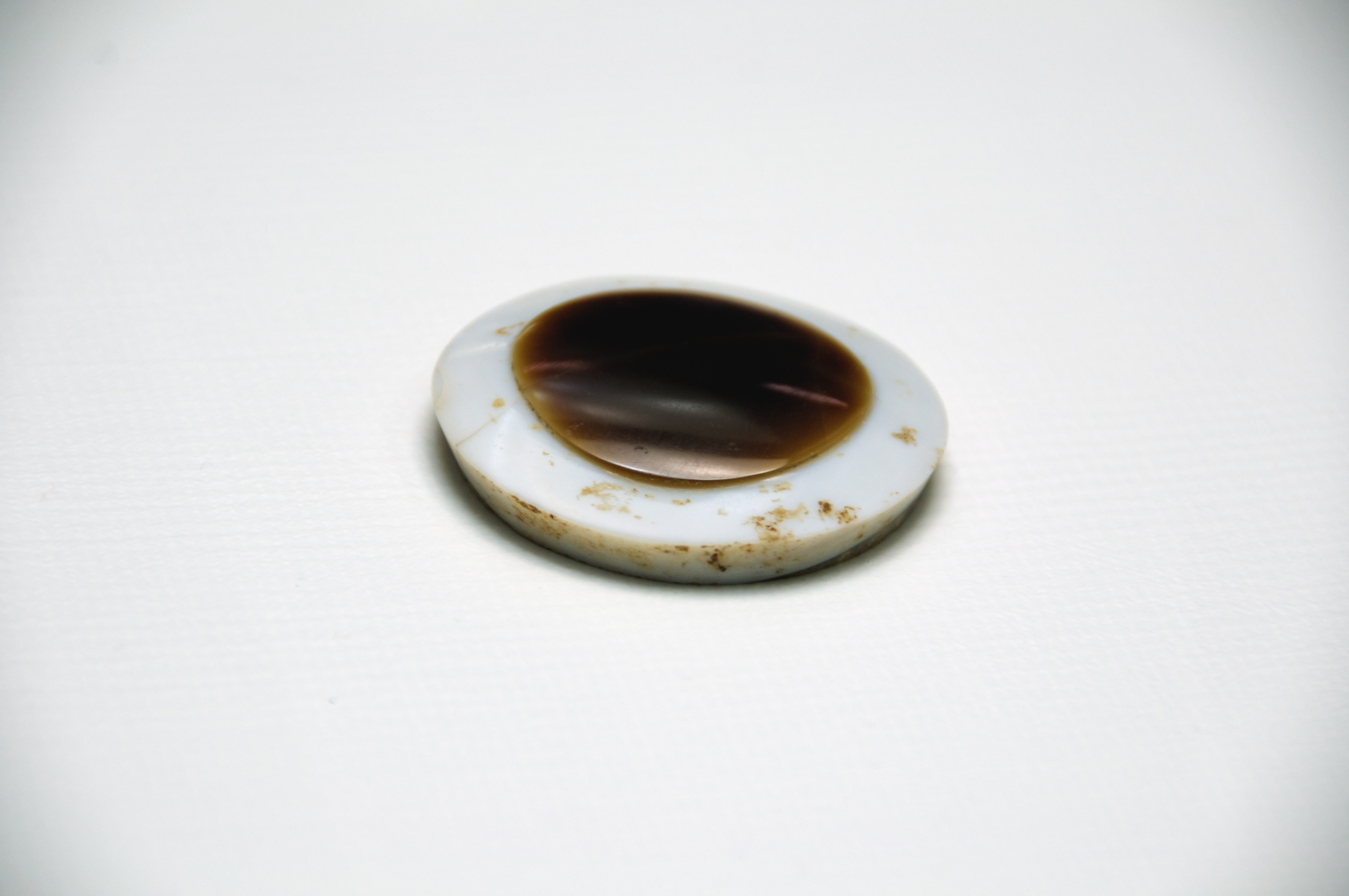 Achaemenid Period (ca. 550 - 330 BCE) In the museum at Persepolis, Iran.